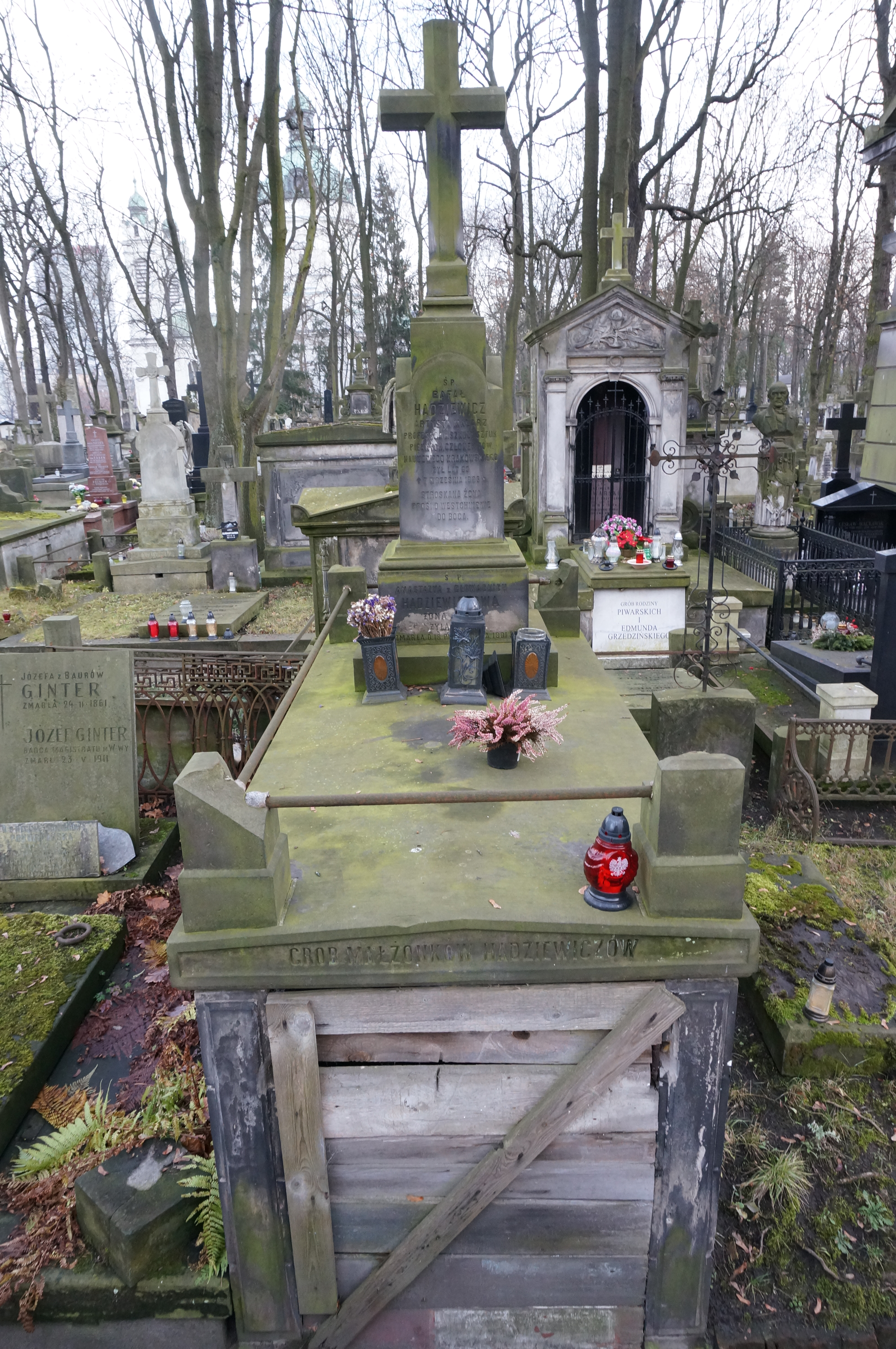 The grave of Rafał Hadziewicz at the Powązki Cemetery (section 19, row 4, grave 23)